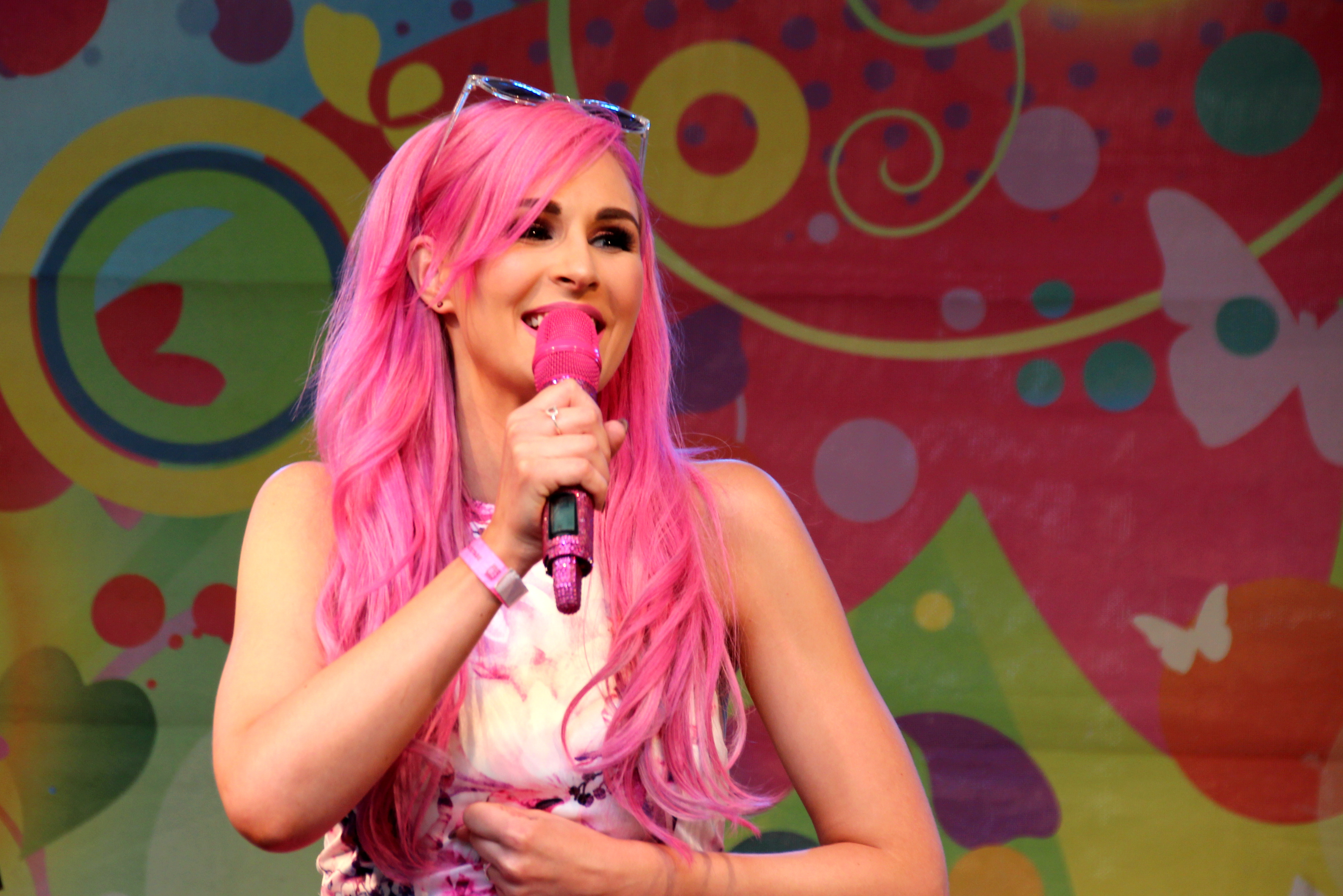 Undine Lux at the Schlagerhammer 2017.